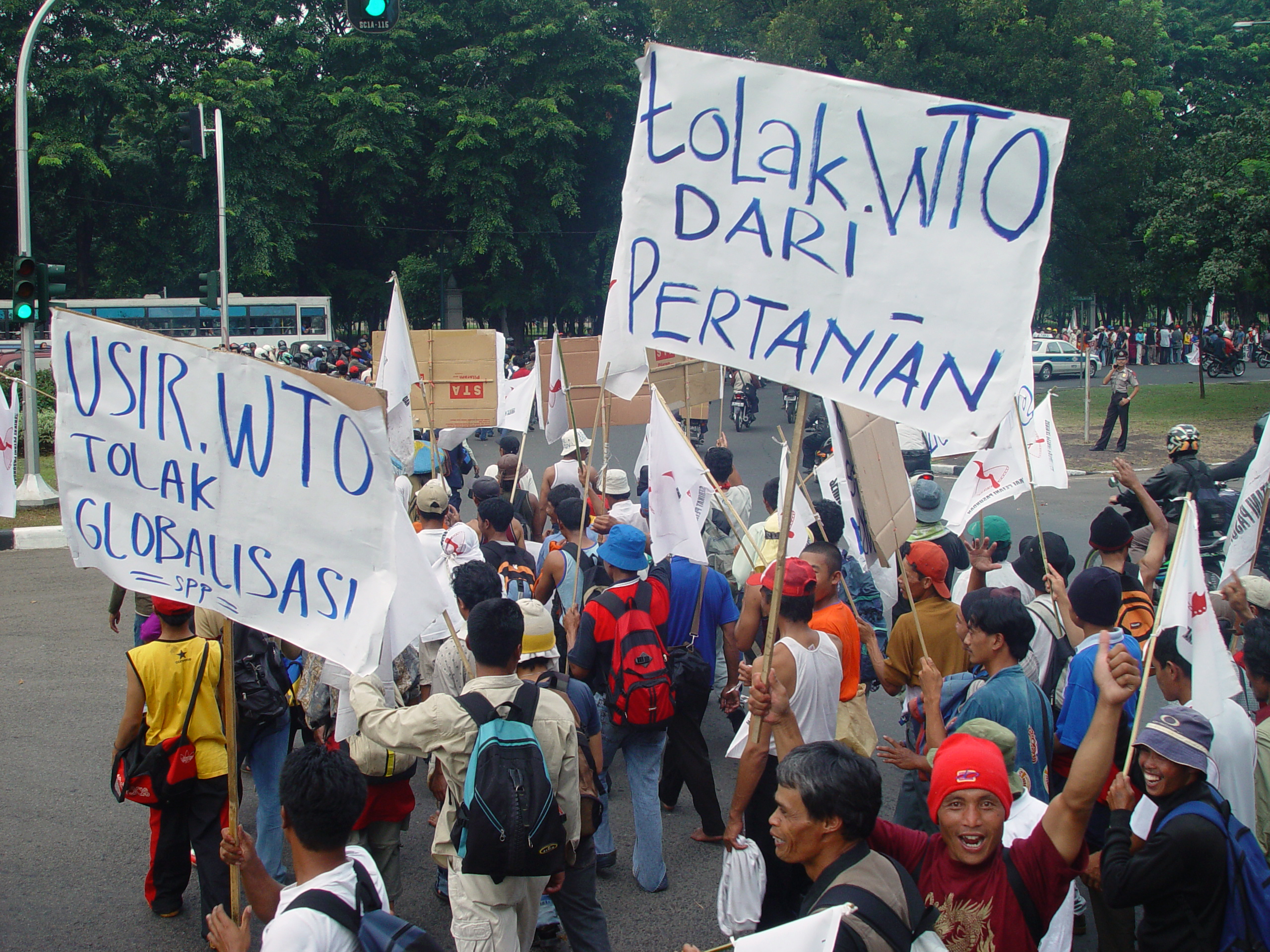 Farmer land rights protest in Jakarta, Indonesia.